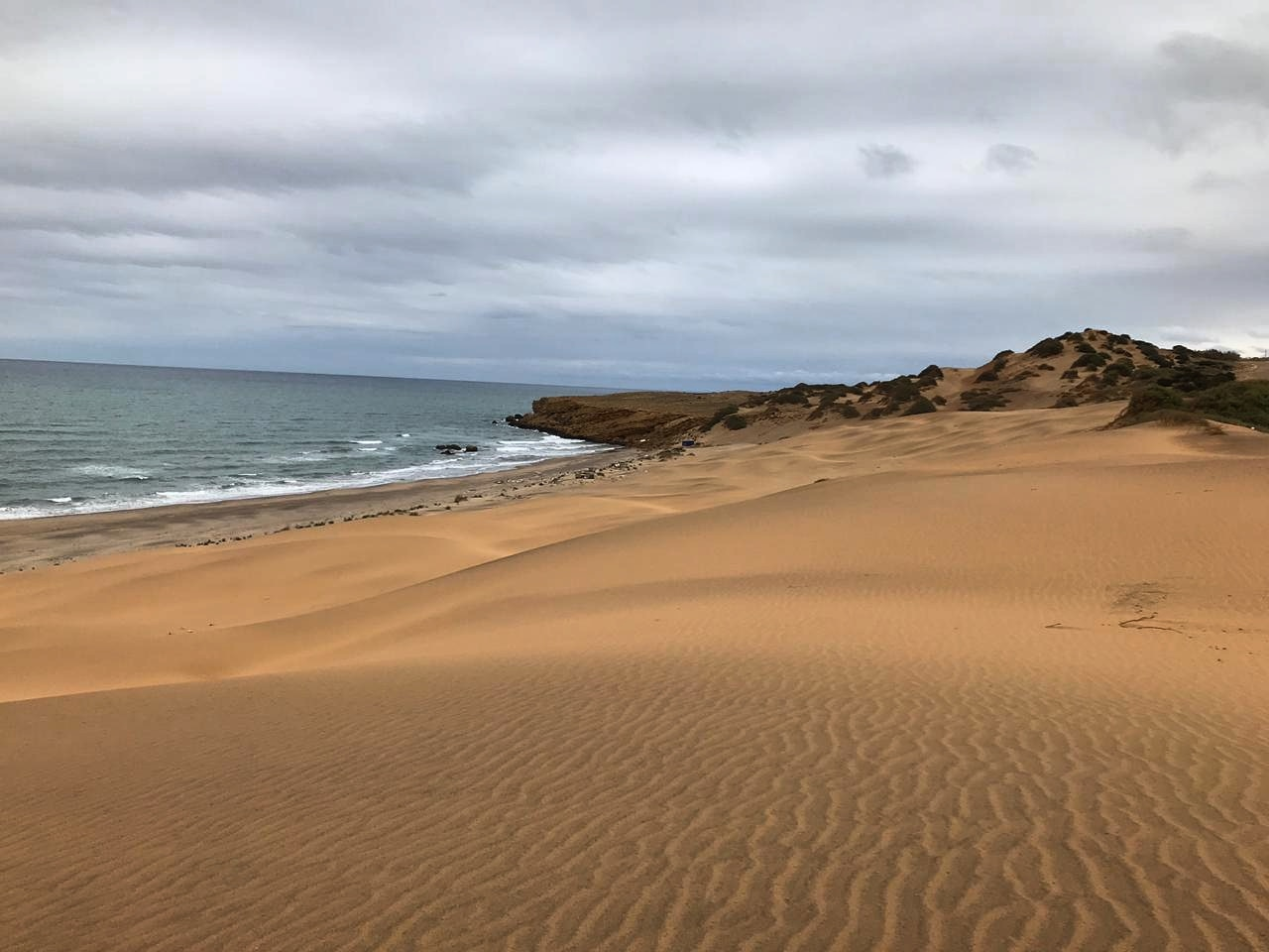 Sand n Sea, Saharan Dunes and Mediterranean Shore Blissful combination